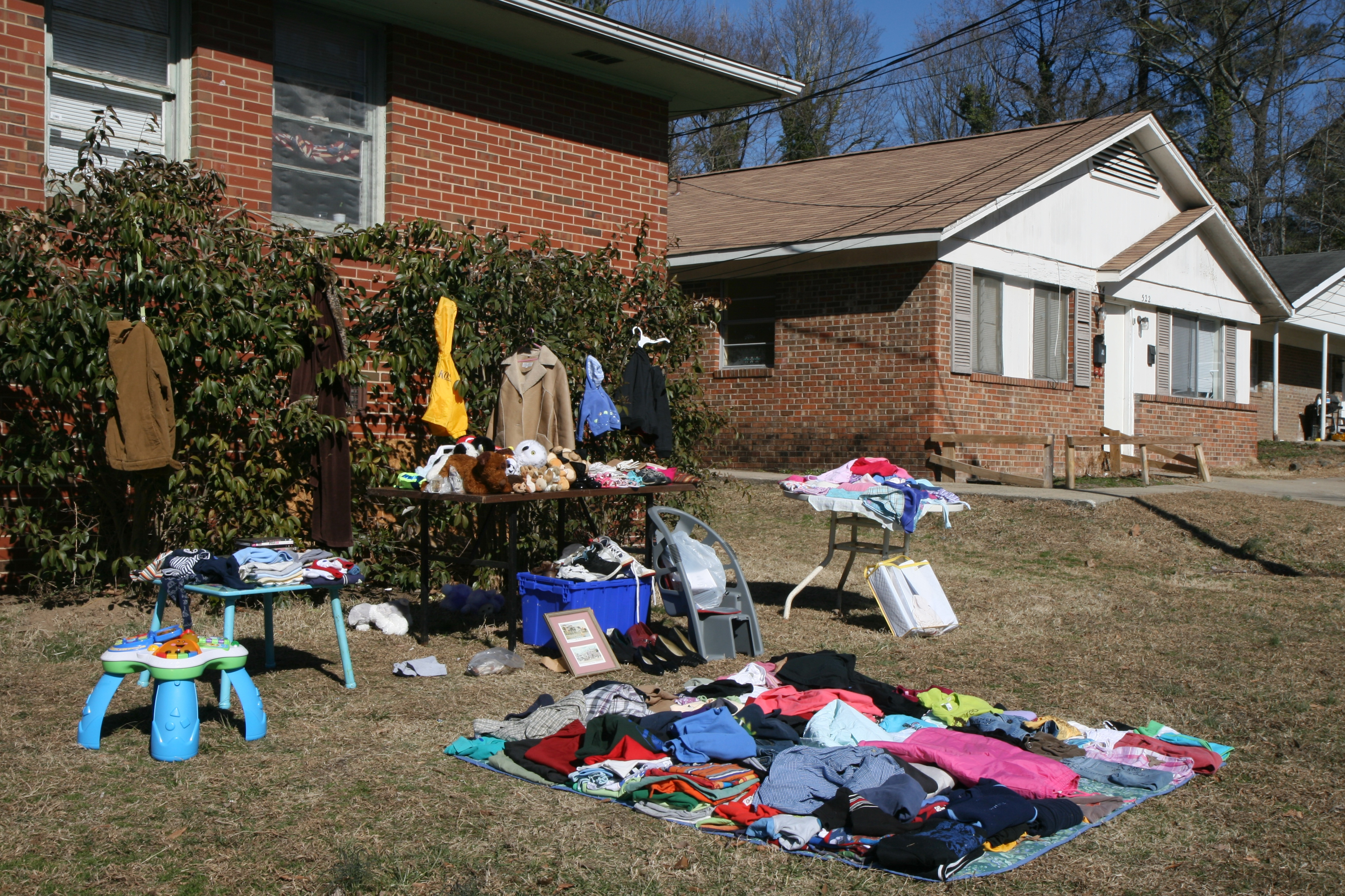 Yard sale on Green Street in Durham, North Carolina.